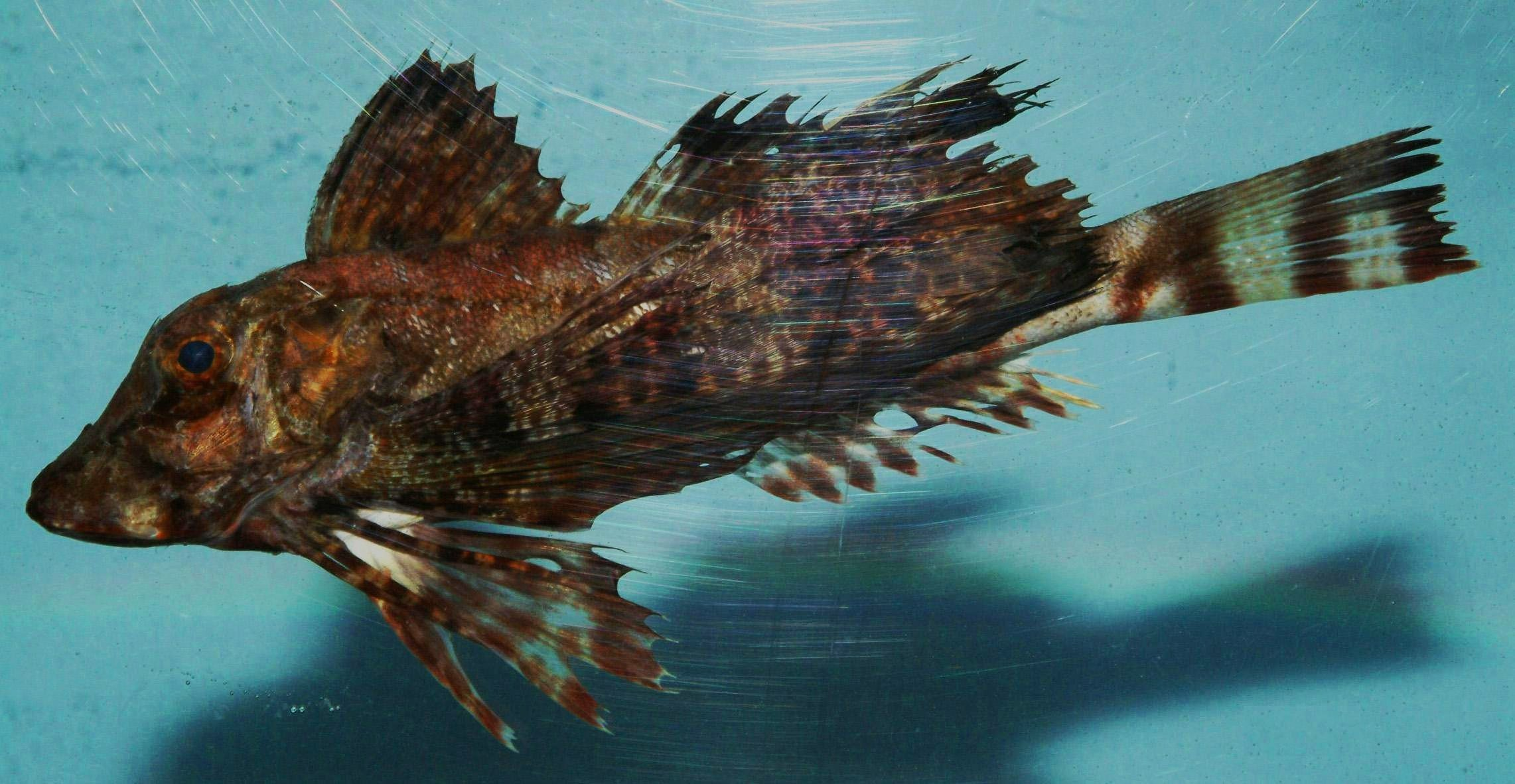 Bandtail searobin ( Prionotus ophryas )